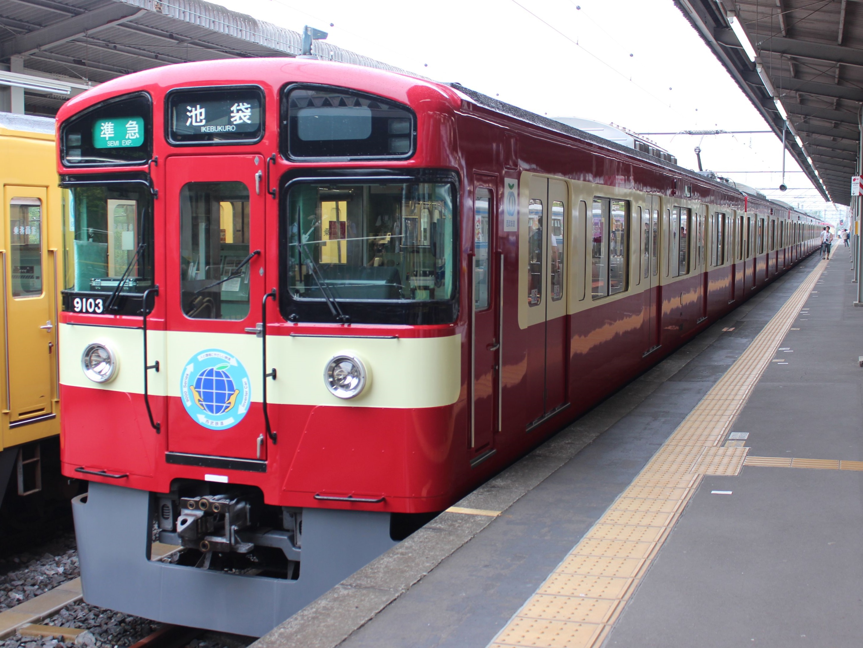 Seibu 9000 series EMU set 9103 in special "Red Lucky Train" livery based on the livery carried by Keikyu trains